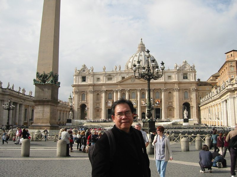 Jose "Butch" Dalisay Jr., Carlos Palanca Awardee in Literature (Philippines).